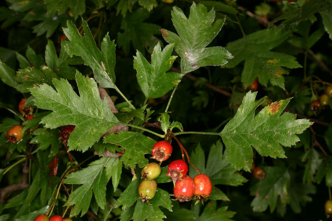 Crataegus rhipidophylla at Jægersborg Dyrehave, København, Danmark. Taken, in the course of taxonomic investigations.